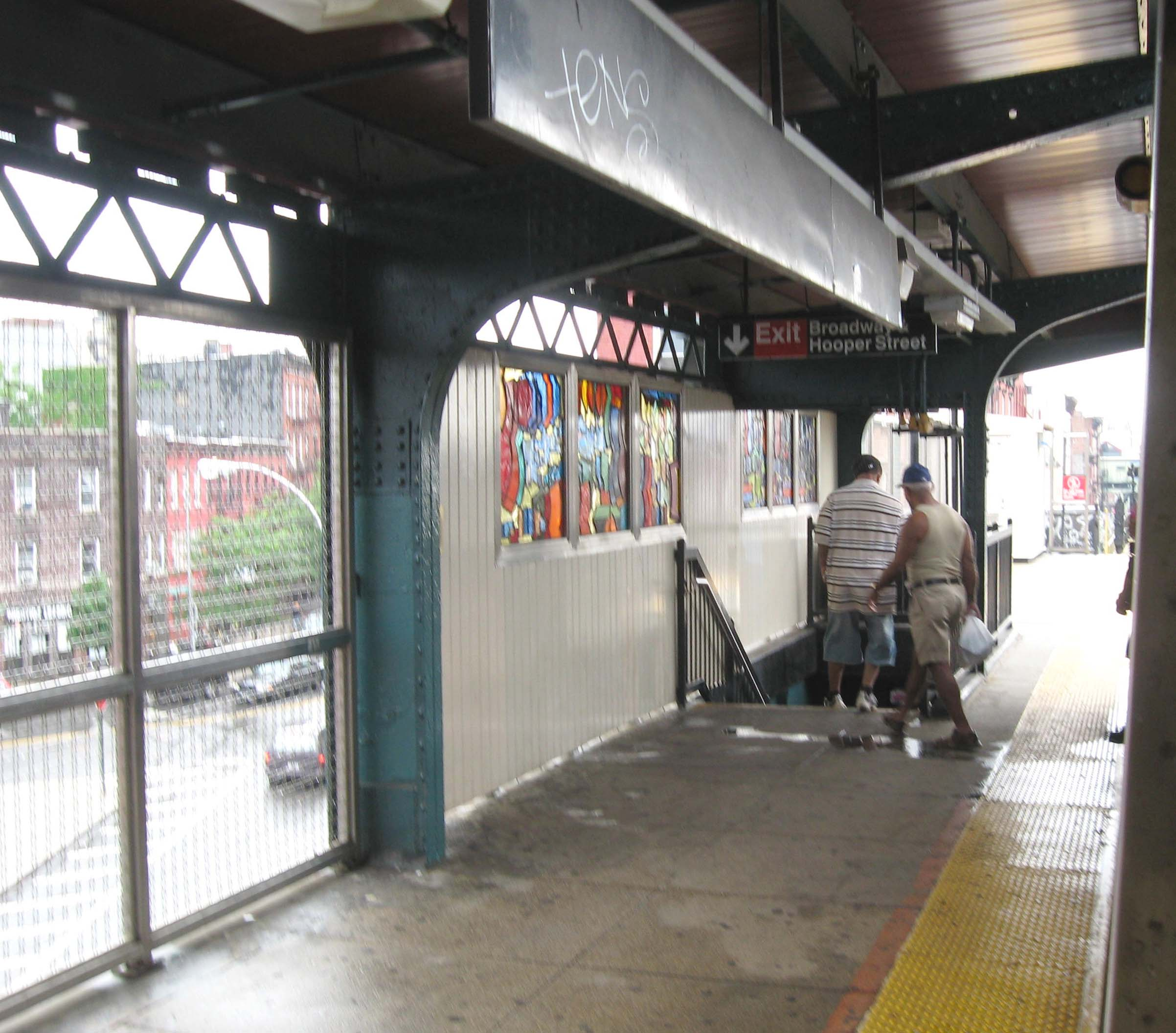 Looking west on northbound platform of Hewes Street (BMT Jamaica Line) on a rainy midday .